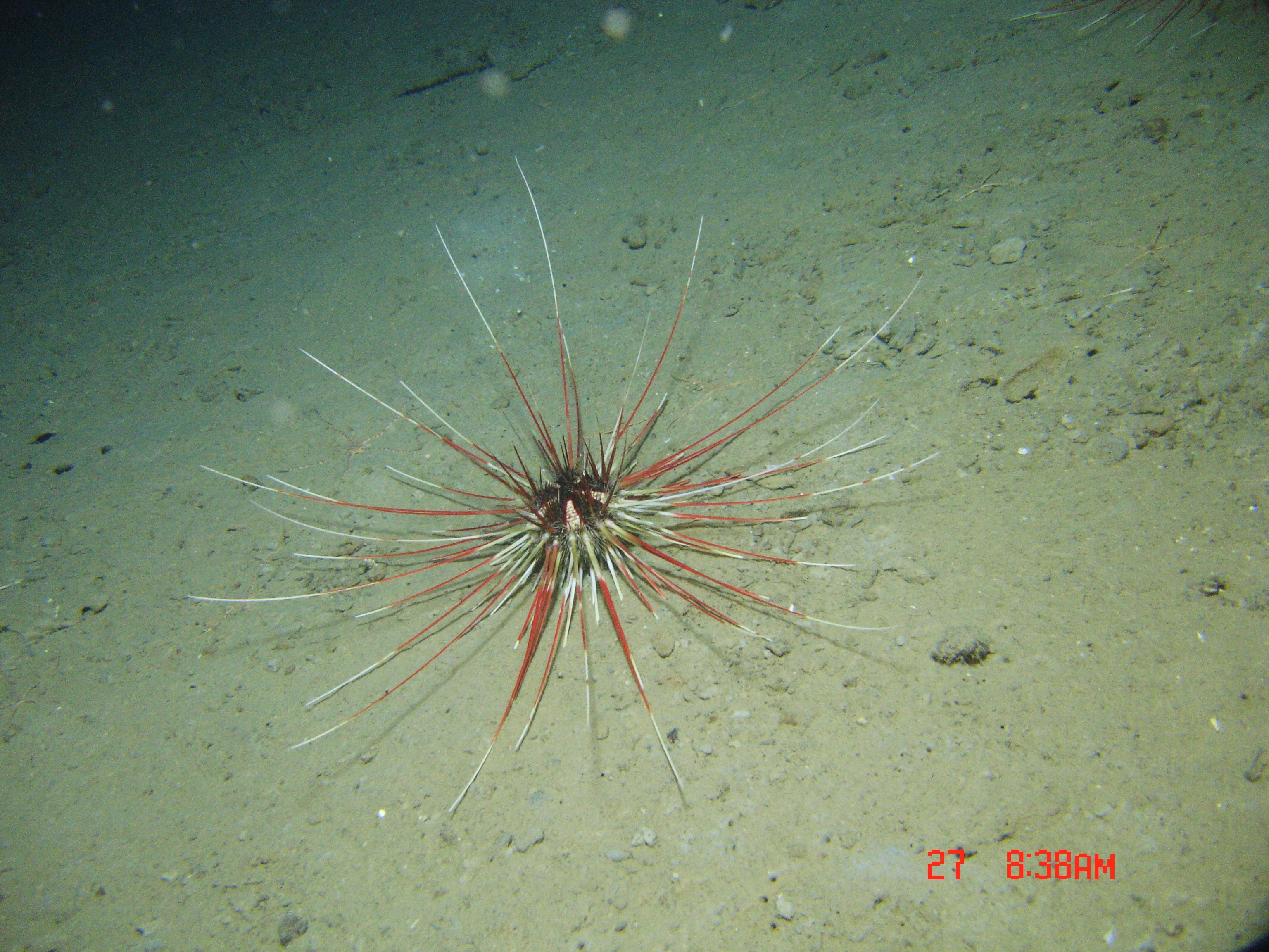 A large red and white urchin with very long spines (Coelopleurus floridanus). Image ID: expn1254, Voyage To Inner Space - Exploring the Seas With NOAA Collect Photo Date: 2008 September 27 1338 Credit: Lophelia II 2008: Deepwater Coral Expedition: Reefs, Rigs, and Wrecks